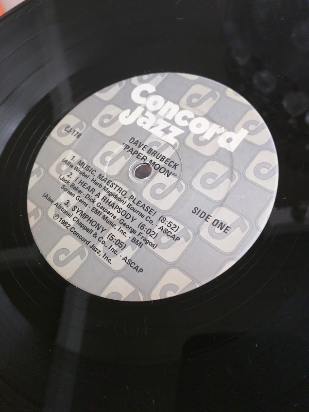 Concord Jazz vinyl label